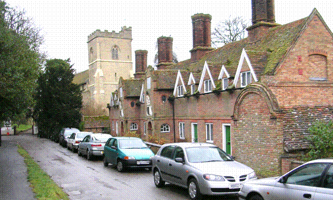 Quainton, Buckinghamshire: parish church and Winwood almshouses